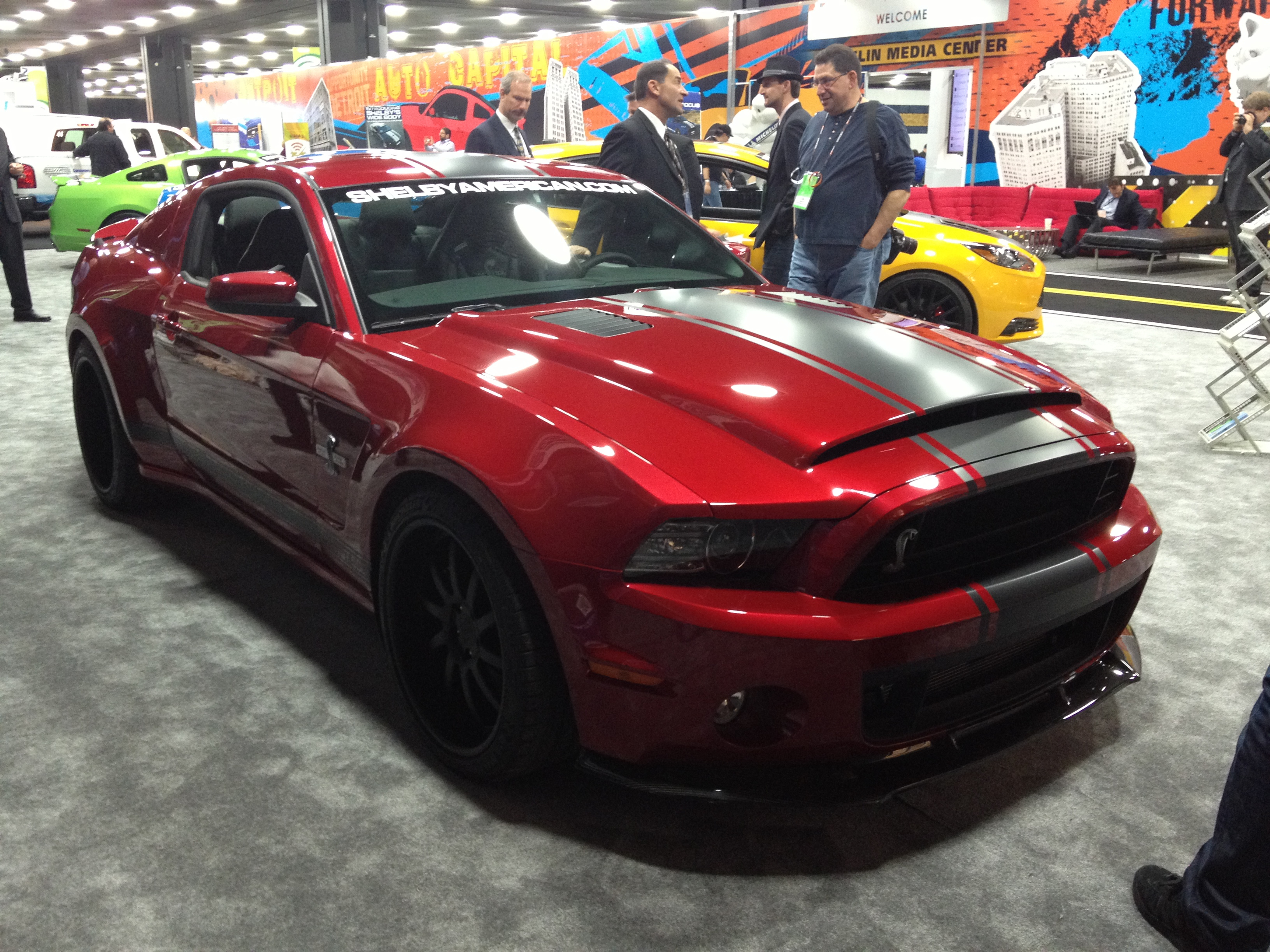 2013 North American International Auto Show Detroit, Michigan